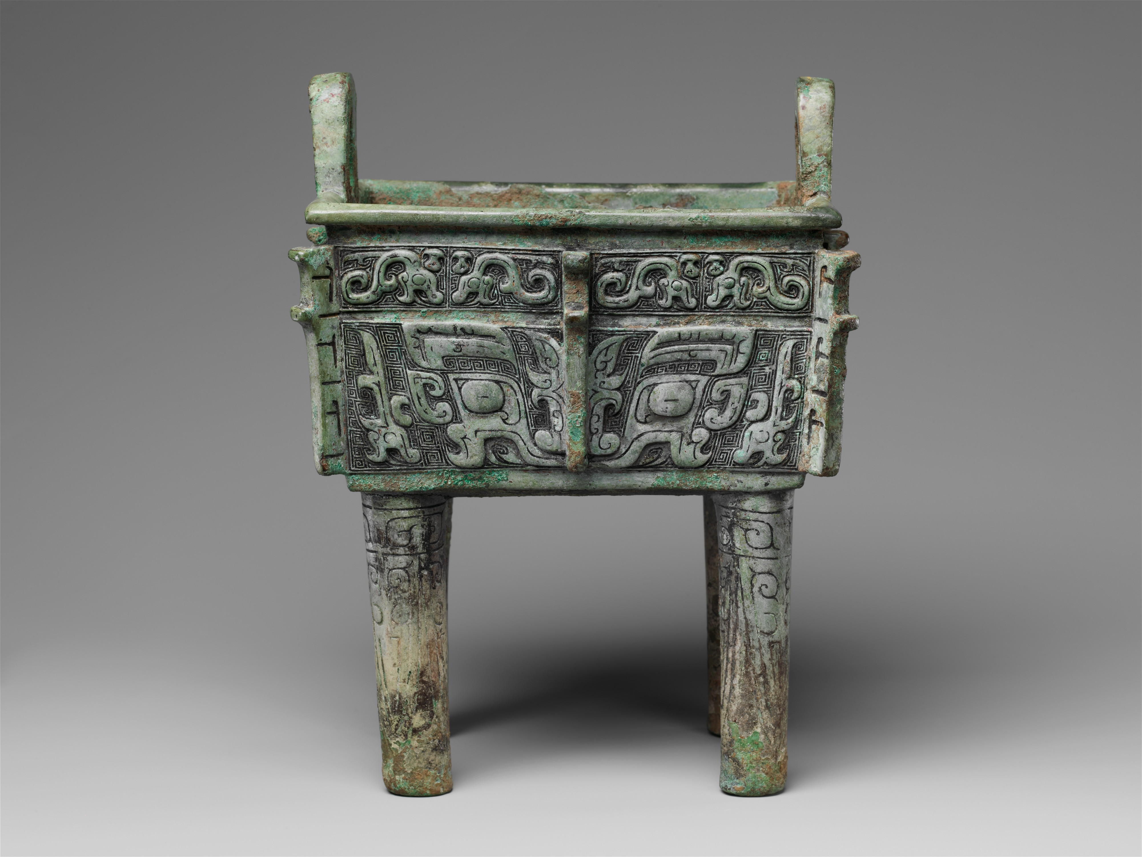 China; Cauldron; Metalwork